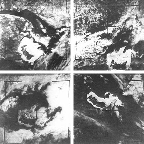 Four pictures taken by satellite Tiros 4, which show Gulf of St. Lawrence and surroudings